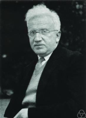 Erich Hecke (1887-1947), 20th century German mathematician; photo publ. in: Mathematische Werke / Erich Hecke, Vandenhoeck & Ruprecht 1959